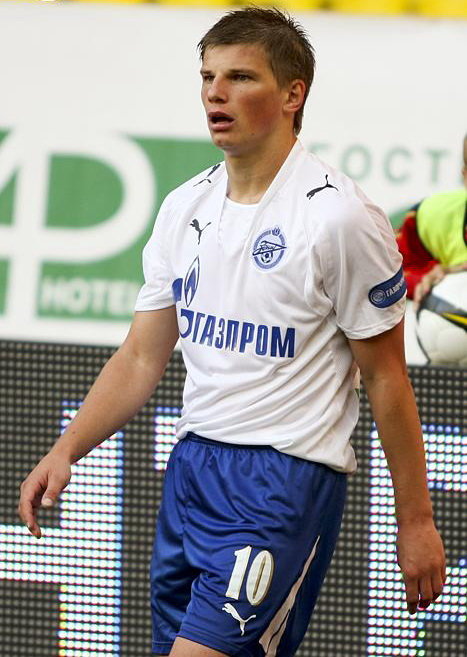 AndreyArshavin